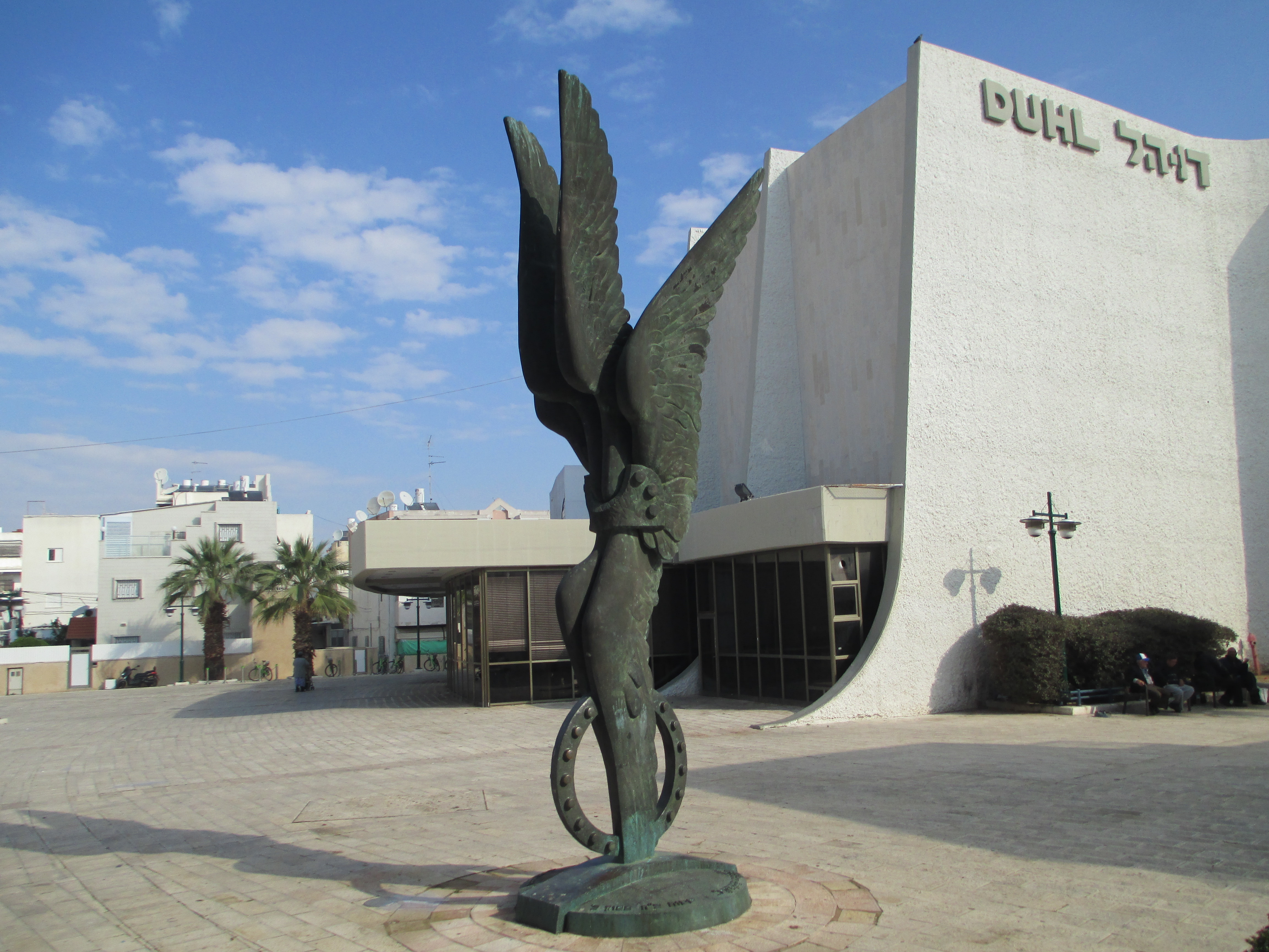 Angel of peace sculpture in Tel Aviv